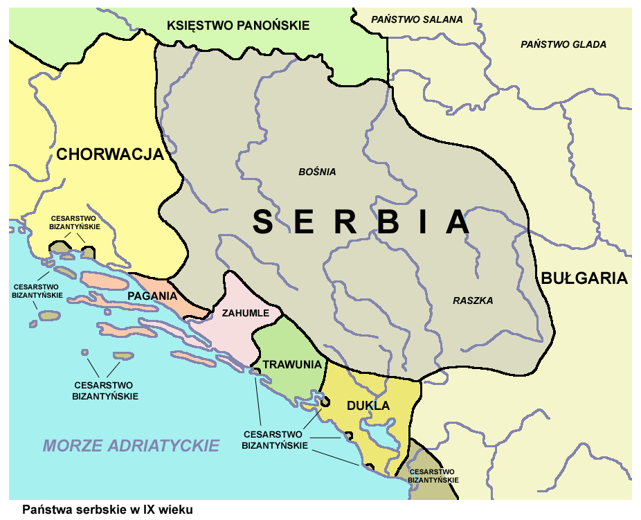 Serb lands in the 9th century - Polish language version.